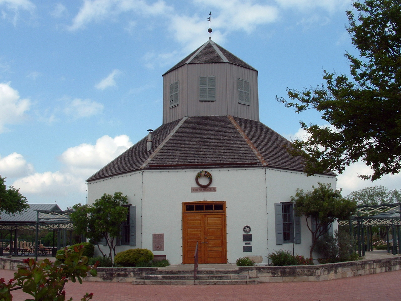 Vereins Kirche, Fredericksburg, Texas. A replica of an 1847 early church. In modern times it was nicknamed the Coffee Mill for its unique shape. The Vereins Kirche, Texas Historical Commission, Vereins Kirche official site